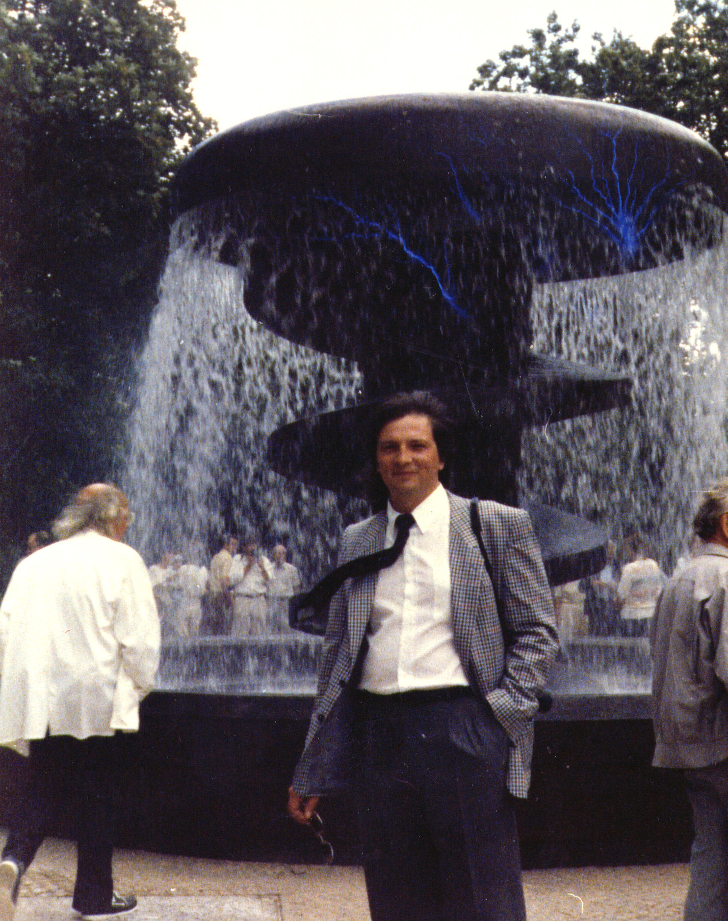 Picture of the in 1987 recreated Rathenau-Monument in Berlin, Germany. Day of grand opening.